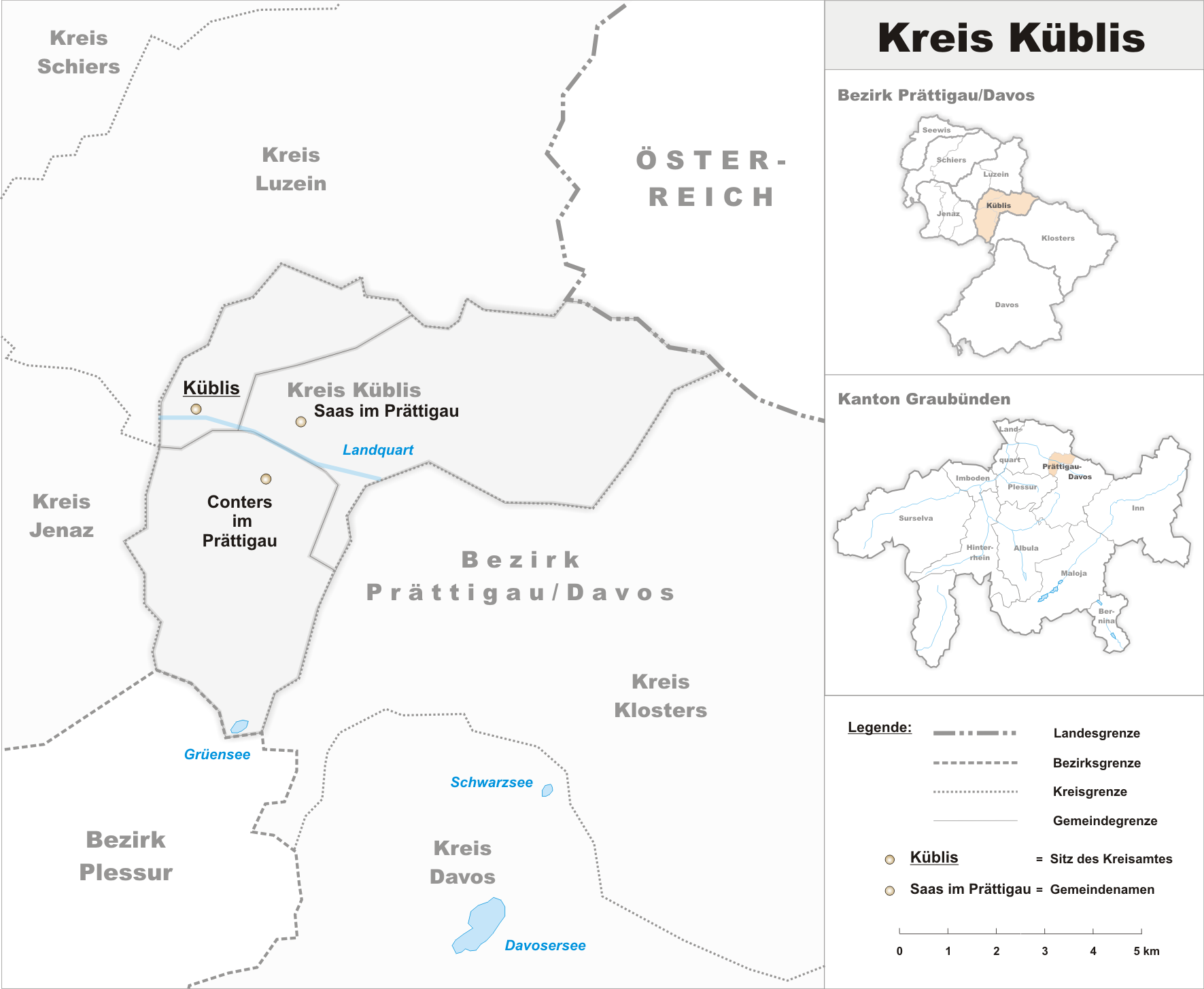 Municipalities in the circle of Küblis